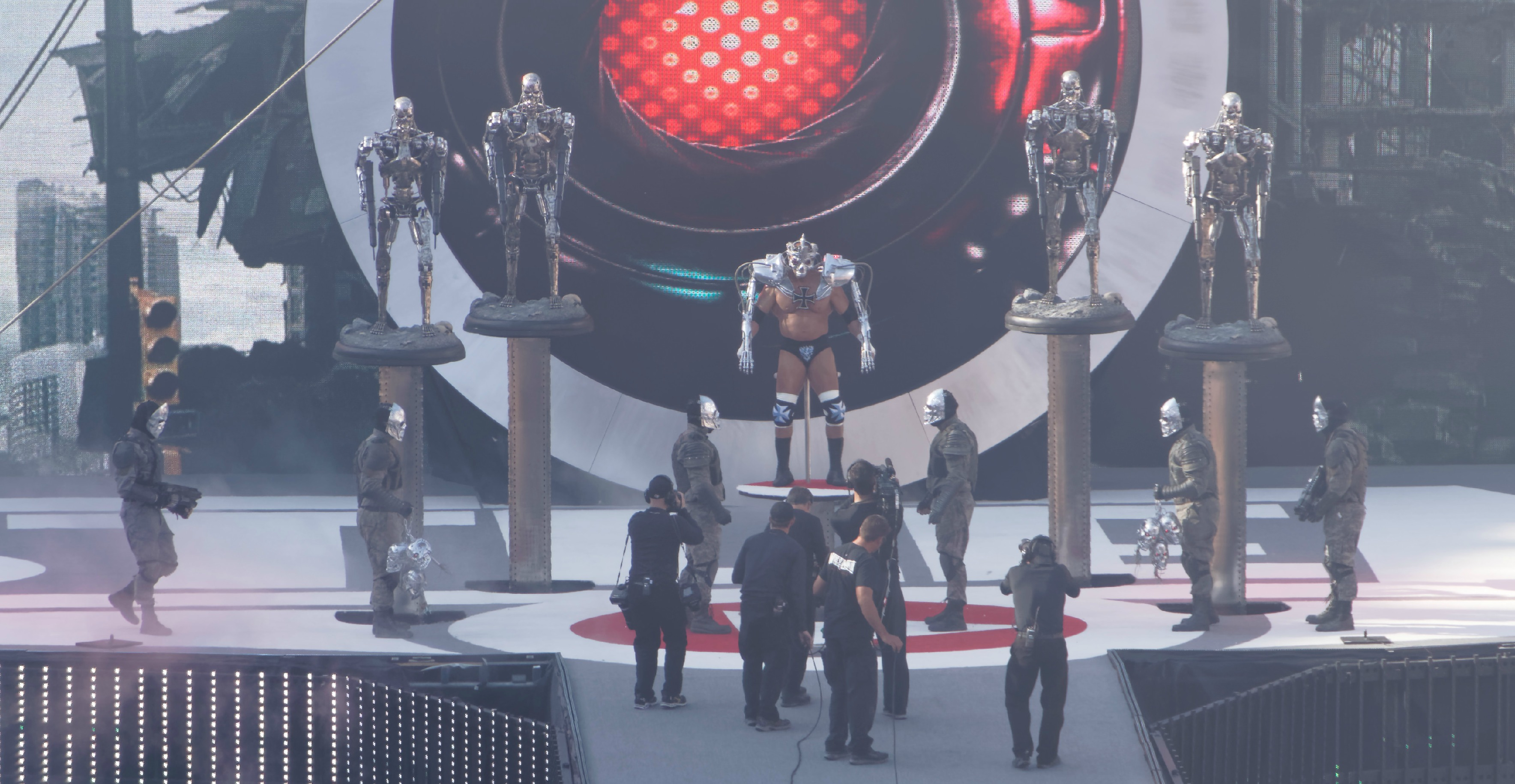 Triple H making his big entrance featuring Terminator at WrestleMania 31.